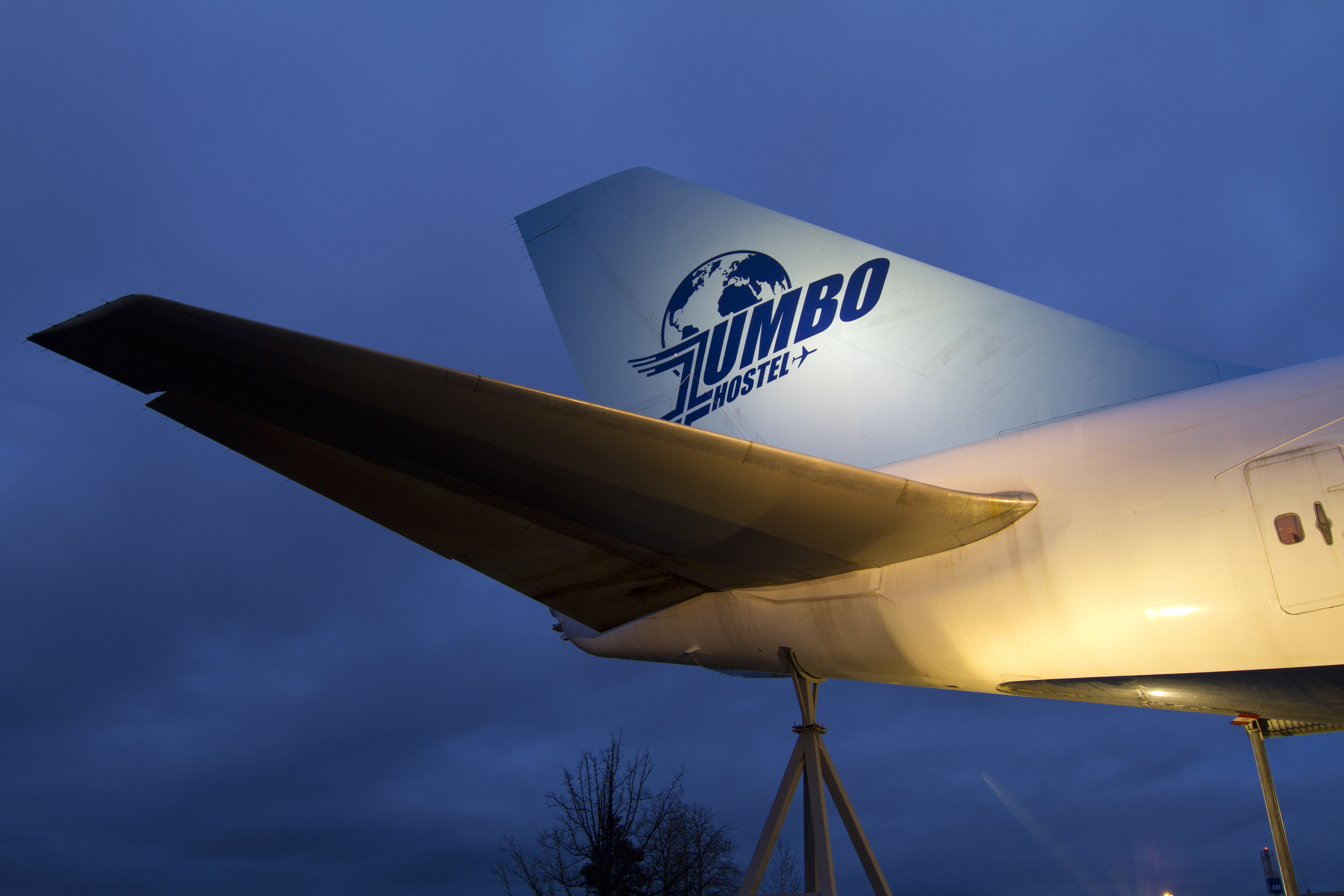 Tail of the famous Jumbo hostel